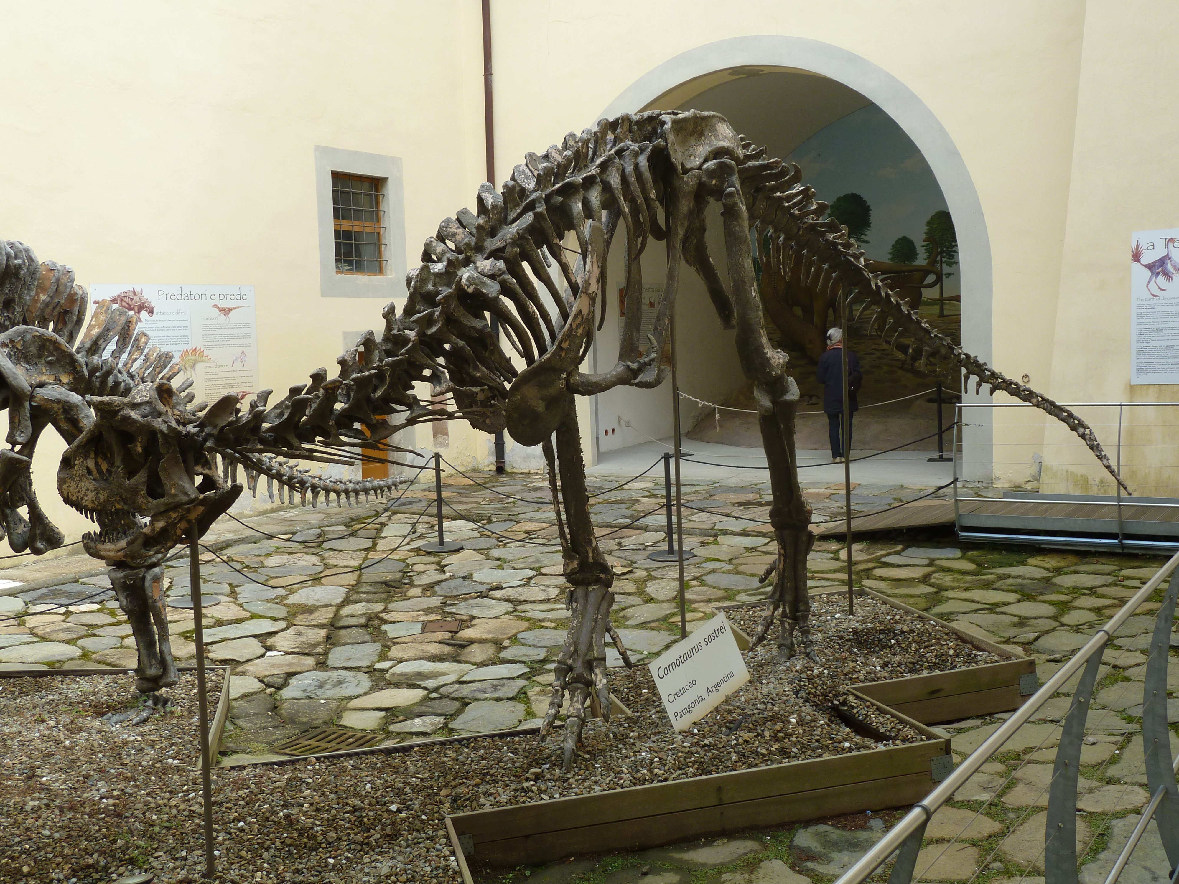 Carnotaurus sastrei